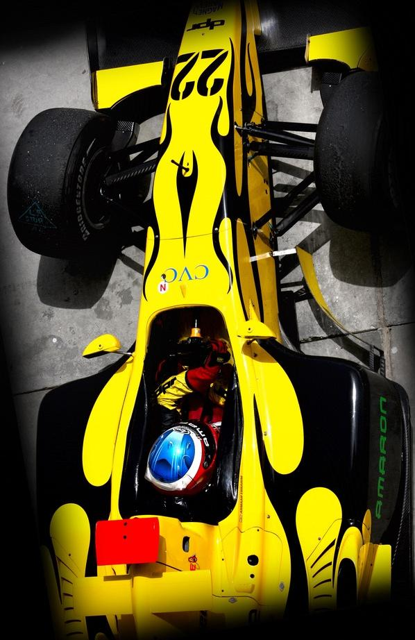 Armaan Ebrahim driving in the Bahrain round of the 2008 GP2 Asia Series.